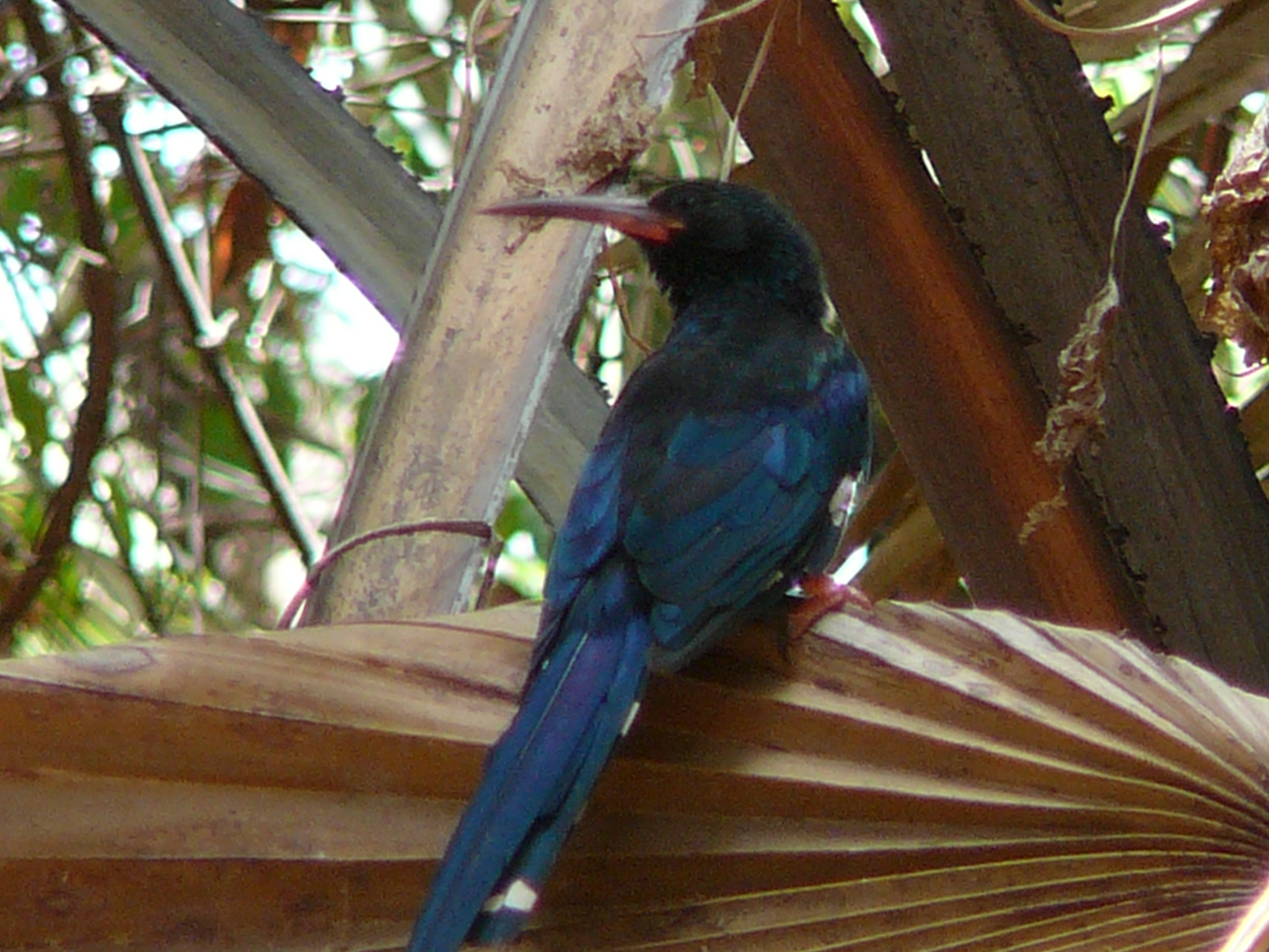 Green Wood Hoopoe